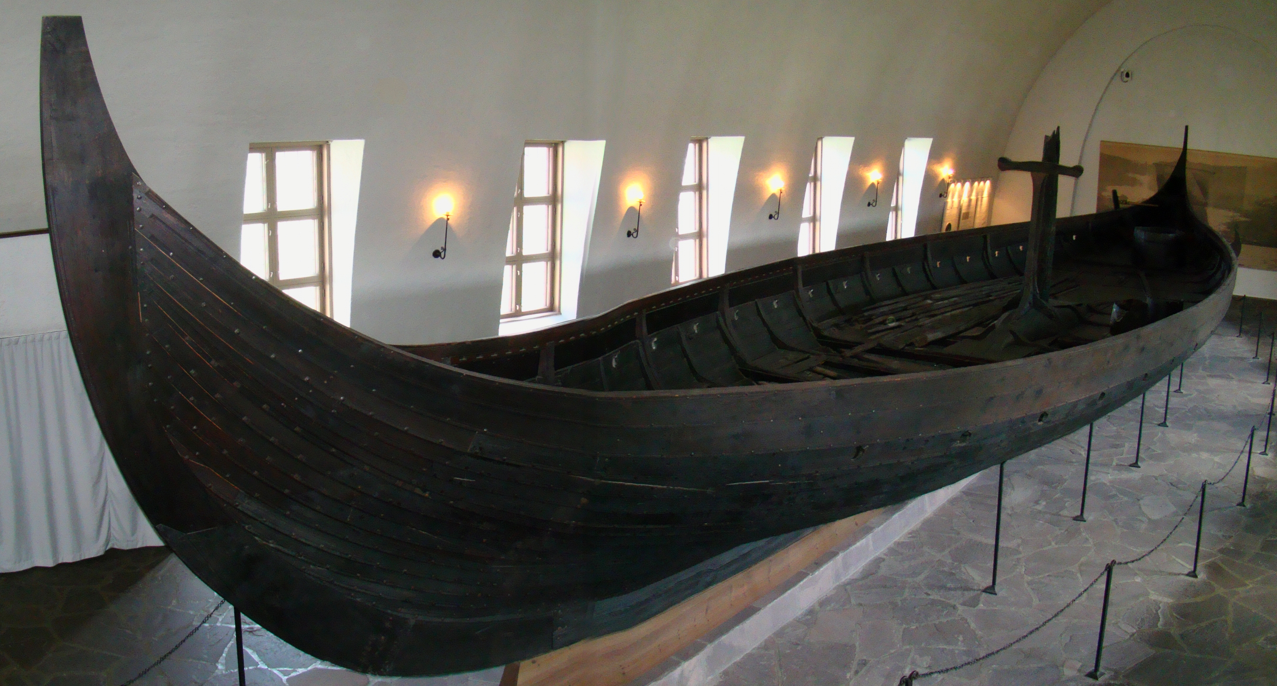 The Gokstad Ship in the purpose-built Viking Ship Museum in Oslo, Norway. The ship is 24 meters long and 5 metres wide, and has room for 32 men with oars to row.